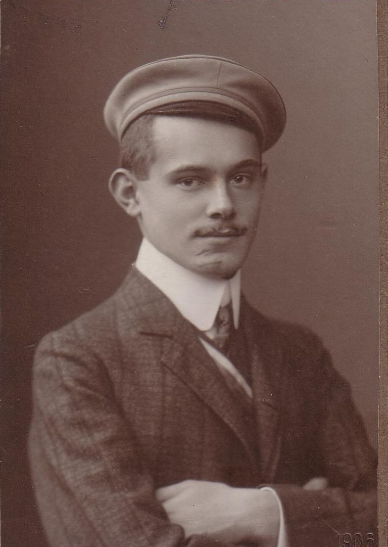 Photography of Hans Schmidt-Leonhardt